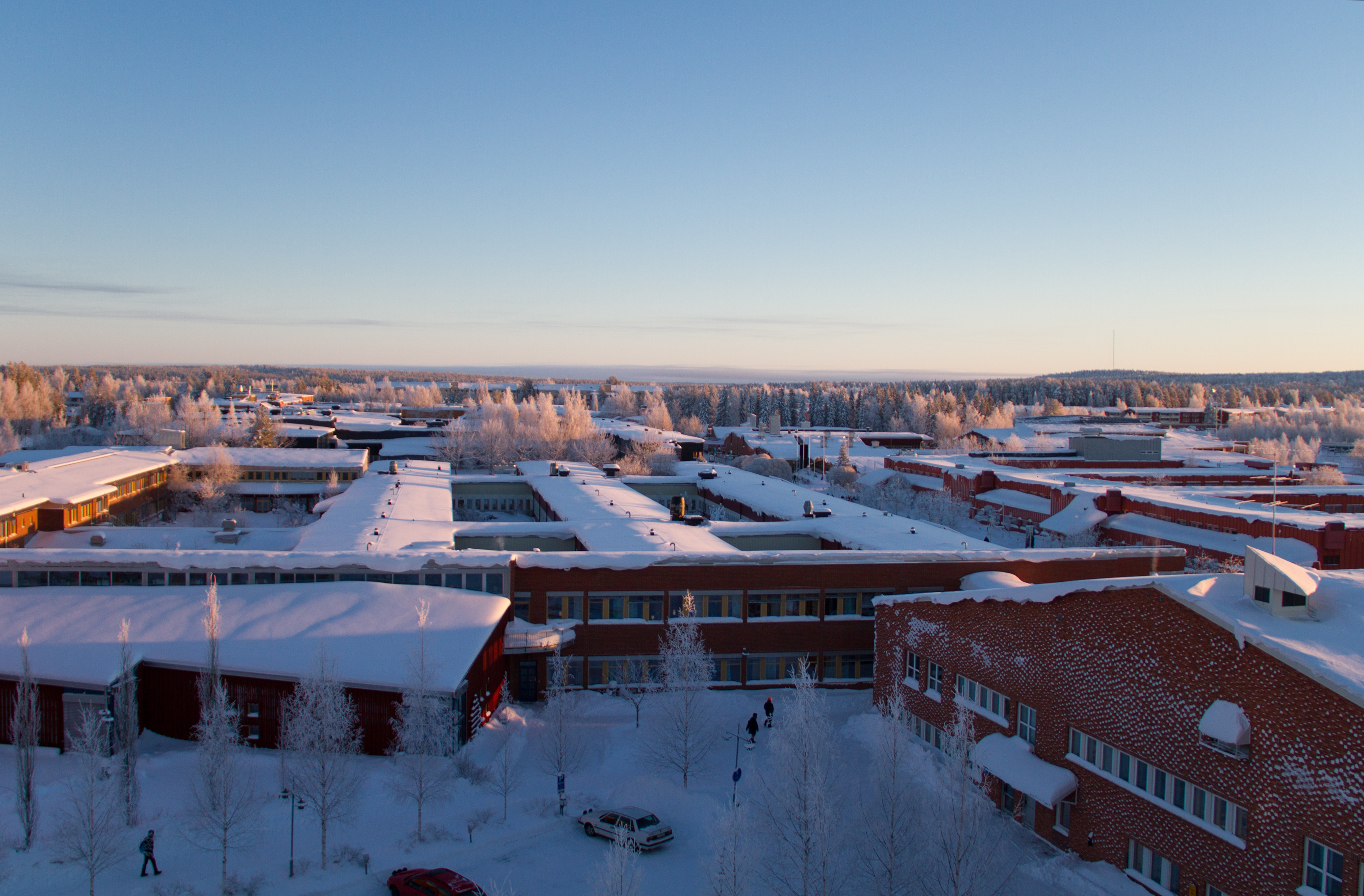 View over Luleå University of Technology main campus in Luleå, Sweden.